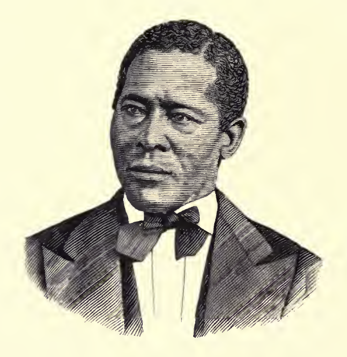 Portrait of William Still, "Father of the Underground Railroad" appearing at the front of his 1872 book.